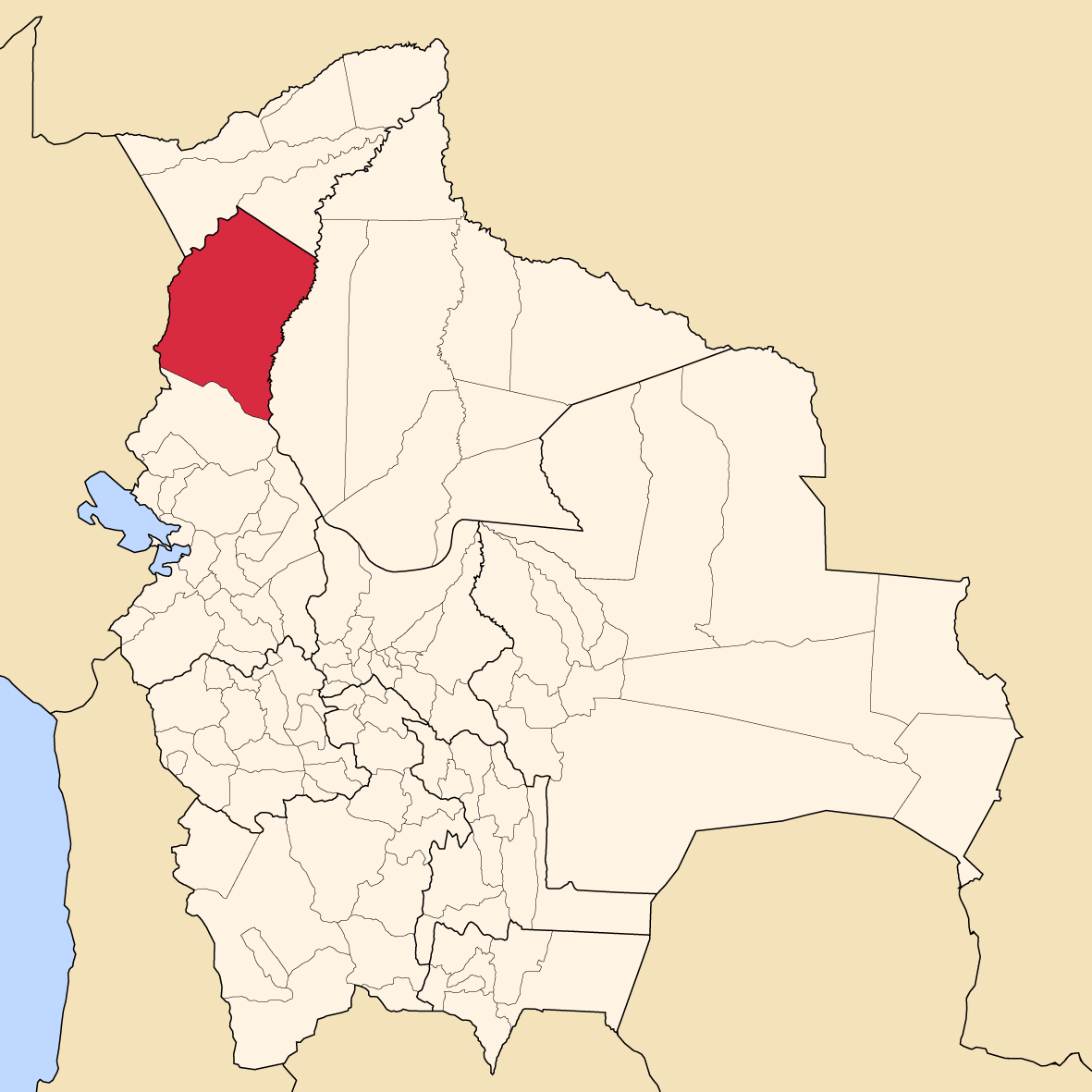 Map of Bolivia showing Abel Iturralde province, La Paz